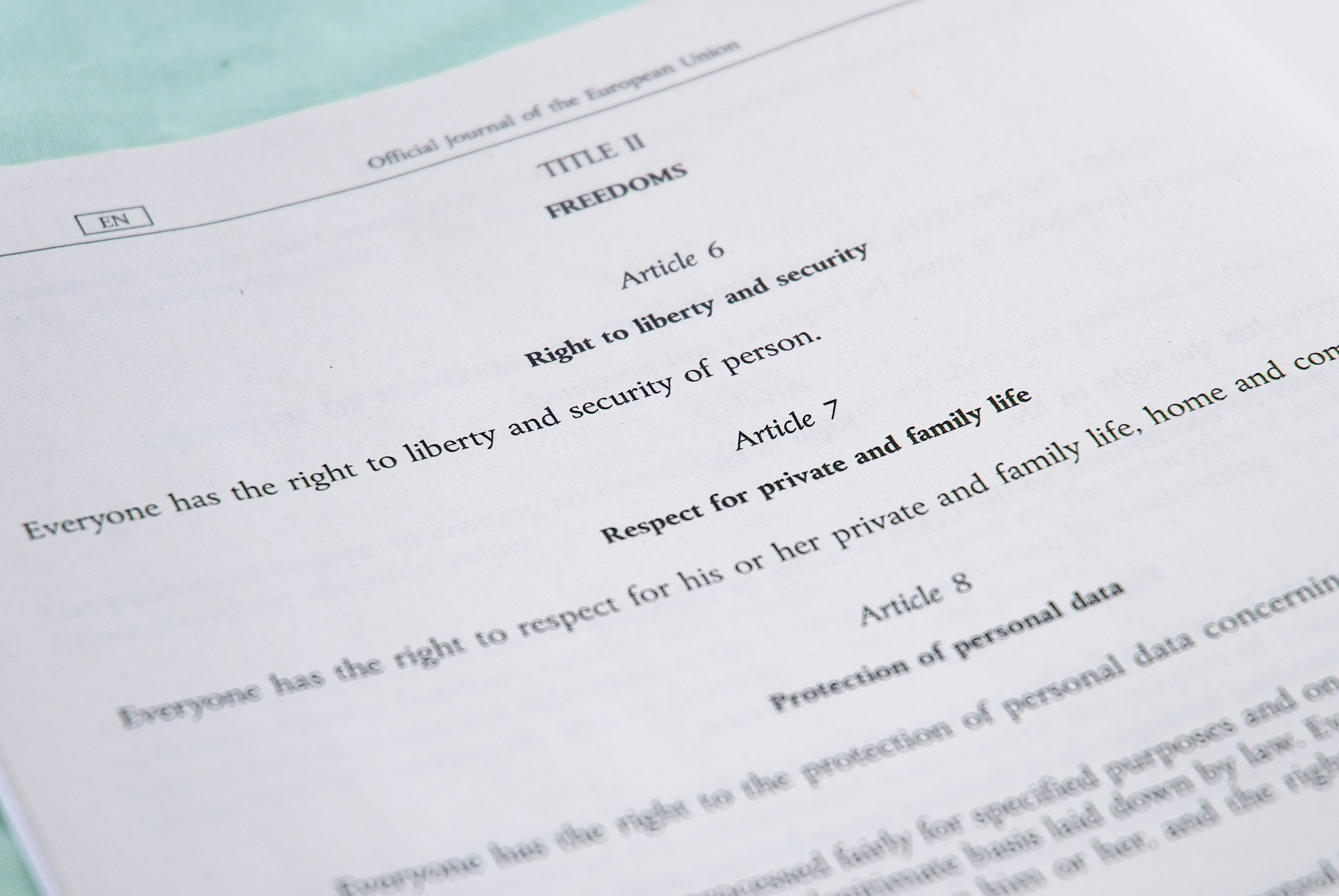 Article 6 of the Charter of Fundamental Rights of the European Union